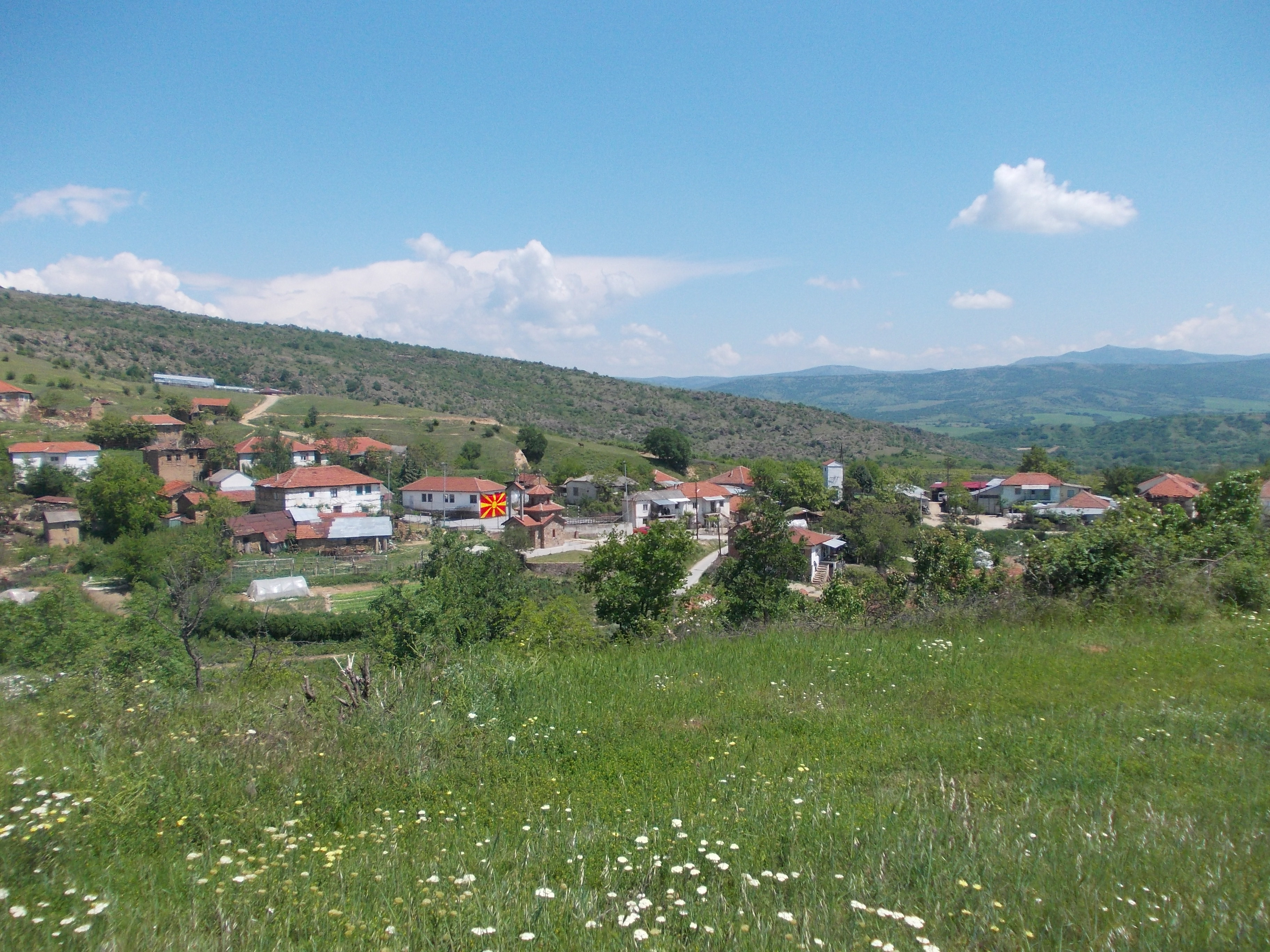 View of the village Martolci